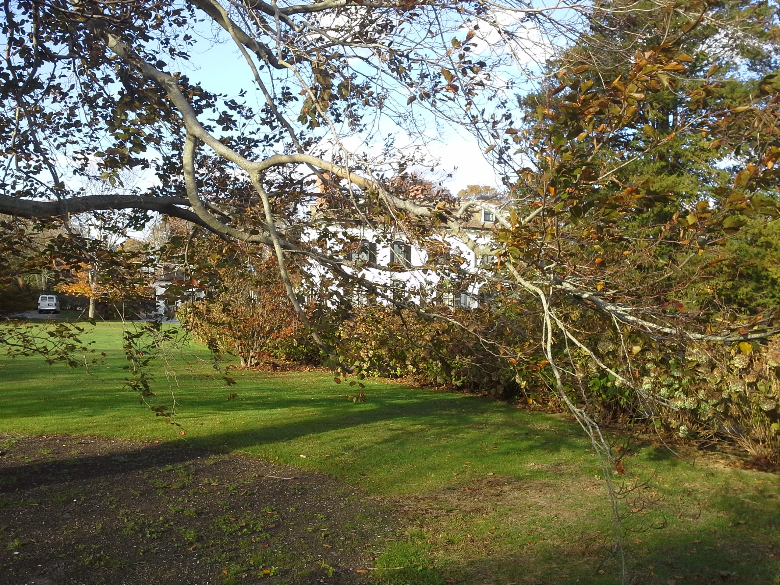 Chepstow, a mansion and estate in Newport, Rhode Island. The museum and offices of the Preservation Society of Newport County.